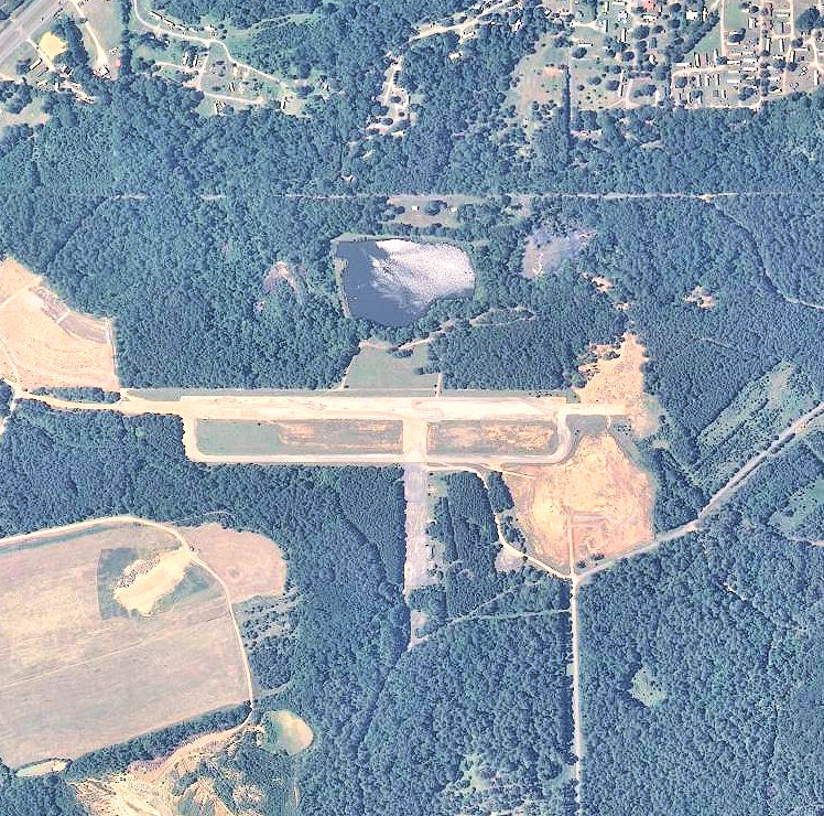 USGS digital orthophoto of Fort McClellan Army Airfield in Alabama